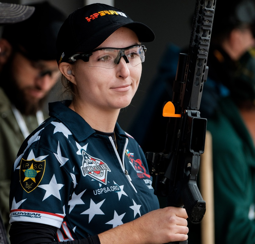 Ashley Rheuark from USA at the 2017 IPSC Rifle World Shoot where she finished second in the Open division Lady category